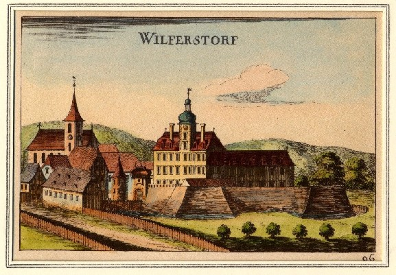 Coloured copper engraving by Georg Matthäus Vischer, showing Wilferstorf palace.